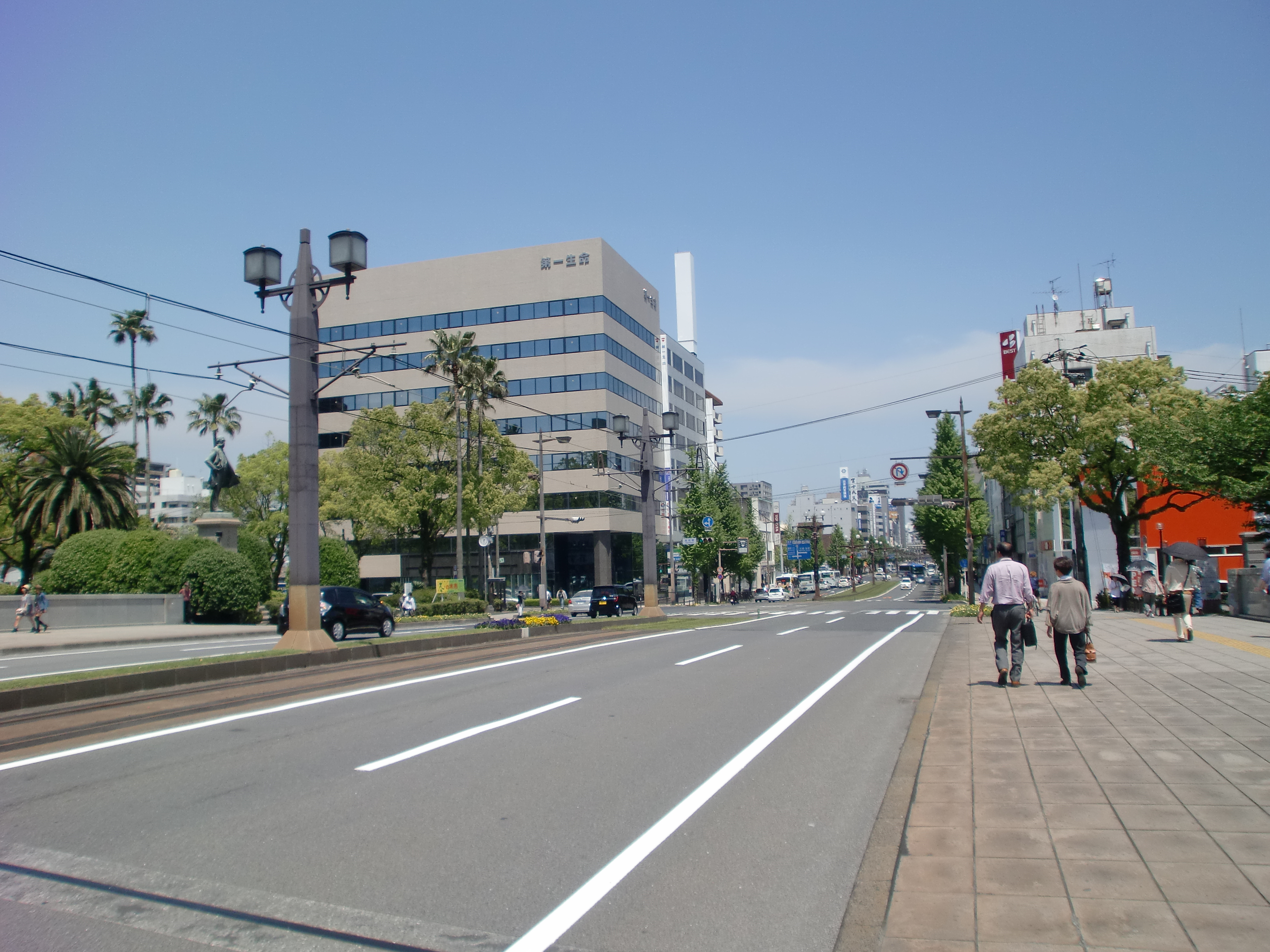 The Kagoshima Prefectural Road Route 21 near Kagoshima-Chuo Station, view towards Tenmonkan